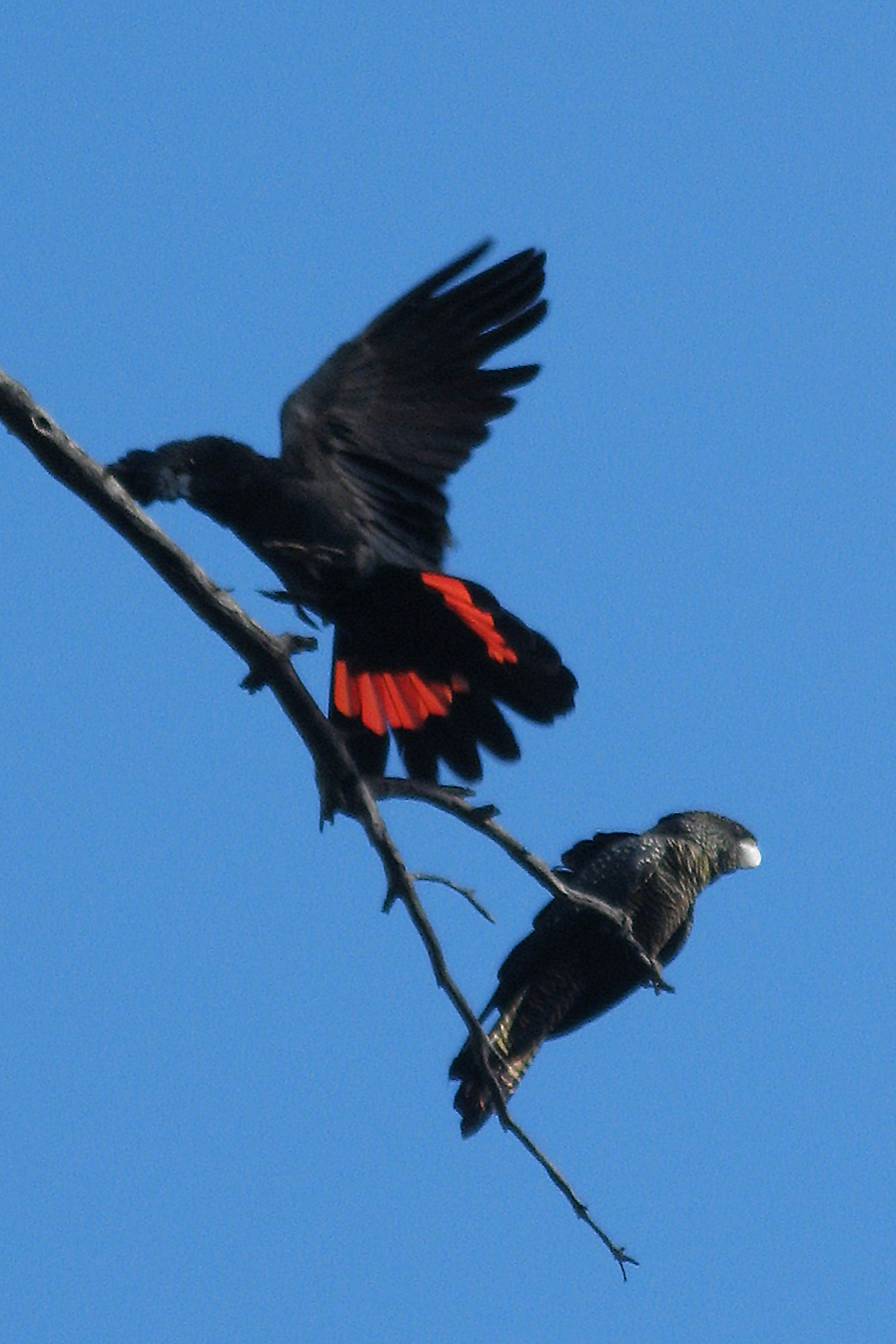 Calyptorhynchus banksii